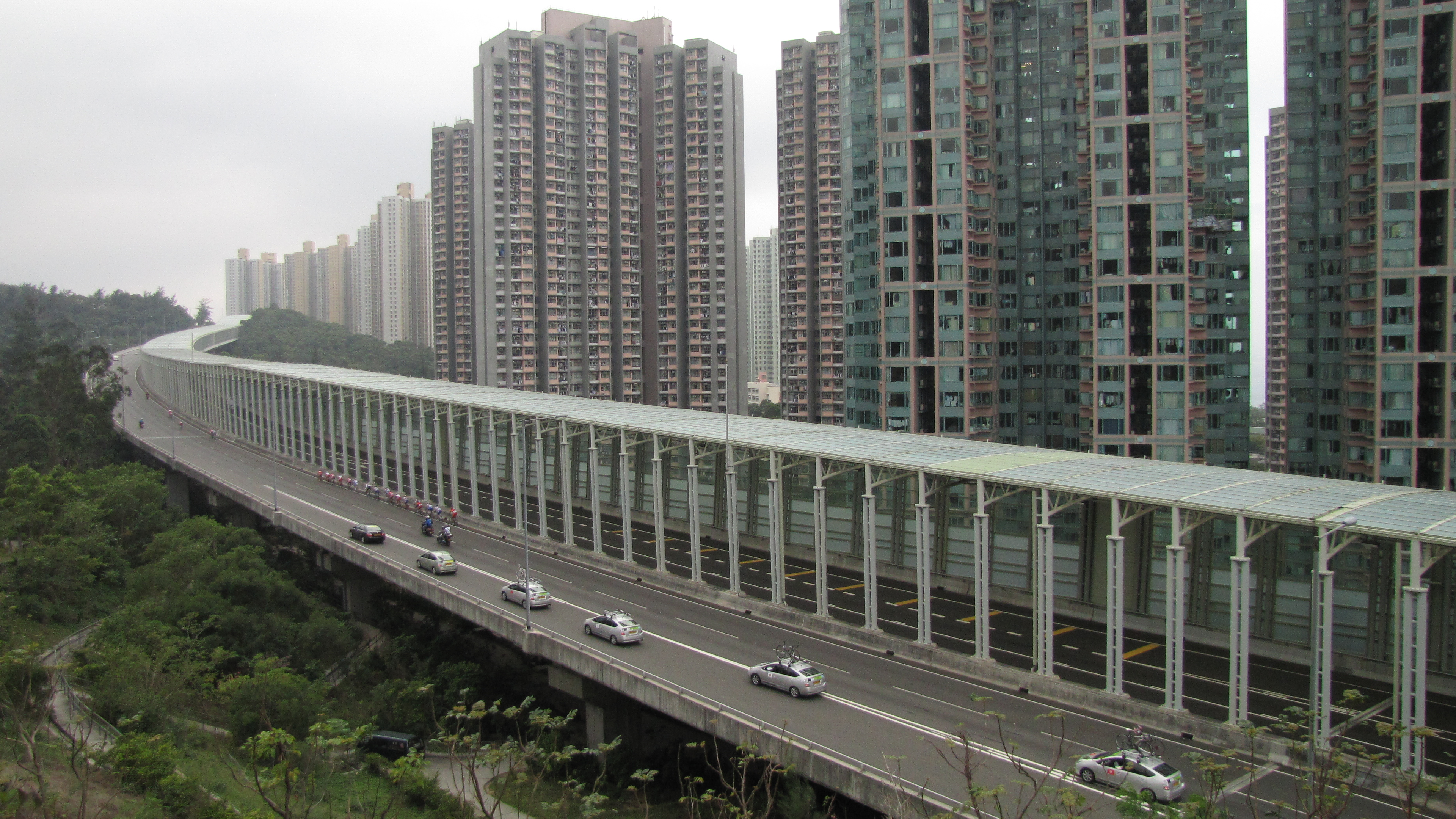 Road Cycling, East Asian Game 2009, Hong Kong